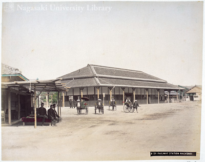 Kyushu Railway Nagasaki Station building, circa 1899. Building was destroyed during the atomic bombing in 1945.